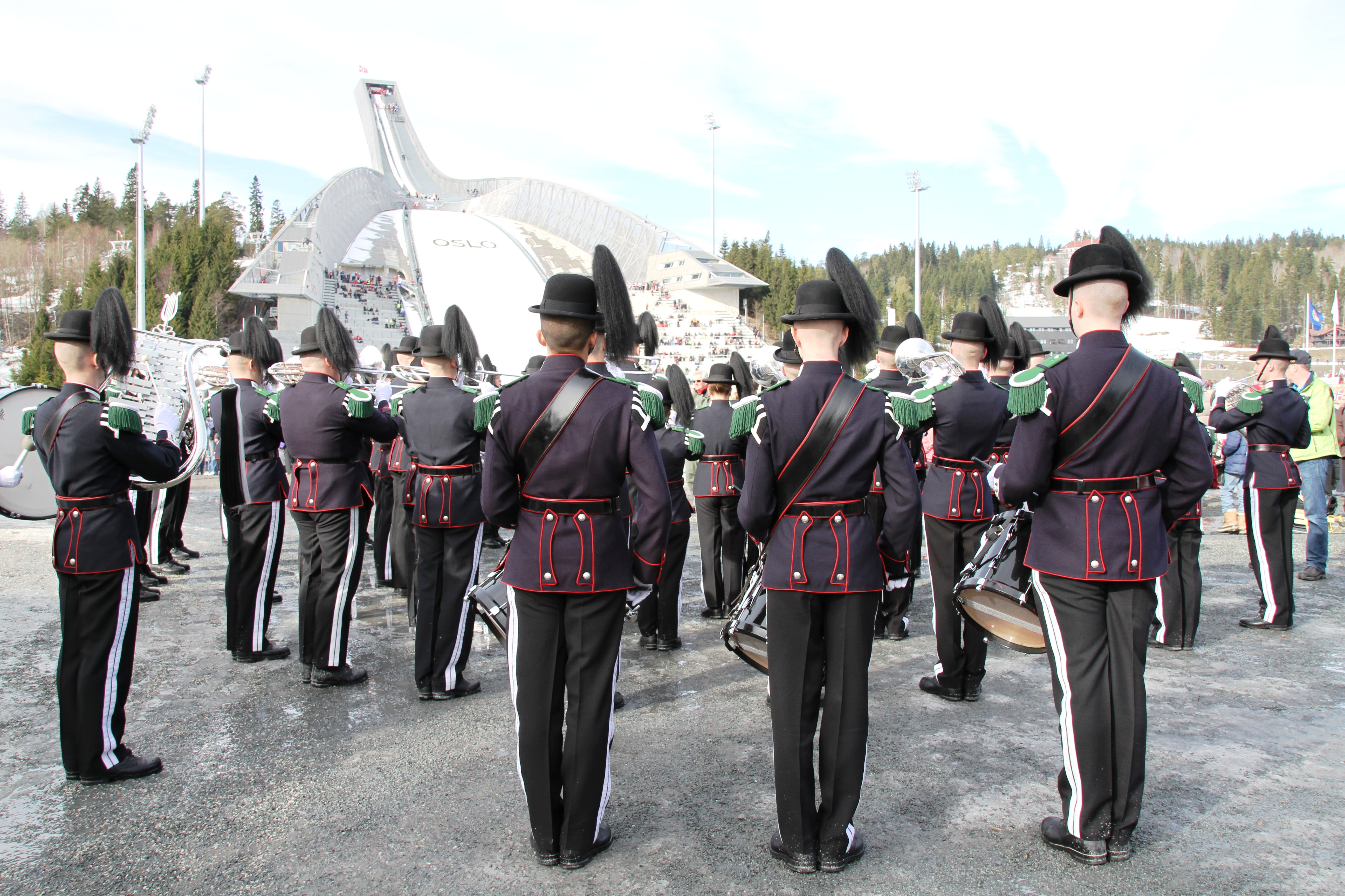 The Royal Guard in Holmenkollen, Oslo. FIS World Cup Ski Jumping, first round. March 11, 2012. This was the third last WC tournament of the season